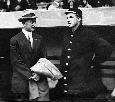 Ty Cobb & Christy Mathewson, New York, NL during World Series (baseball)[1911]